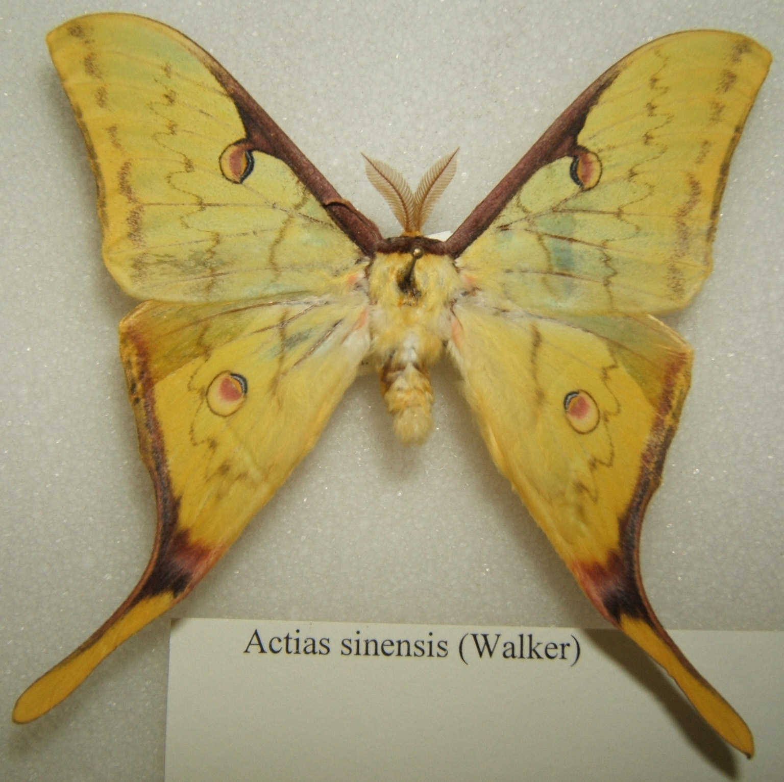 Actias sinensis adult male taken by Shawn Hanrahan at the Texas A&M University Insect Collection in College Station, Texas.